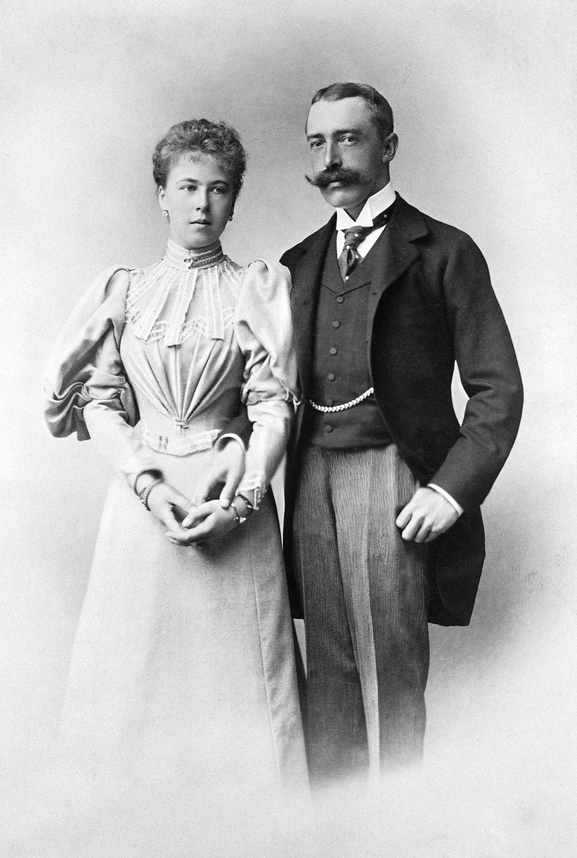 Princess Alexandra and her fiancé, Prince Ernest